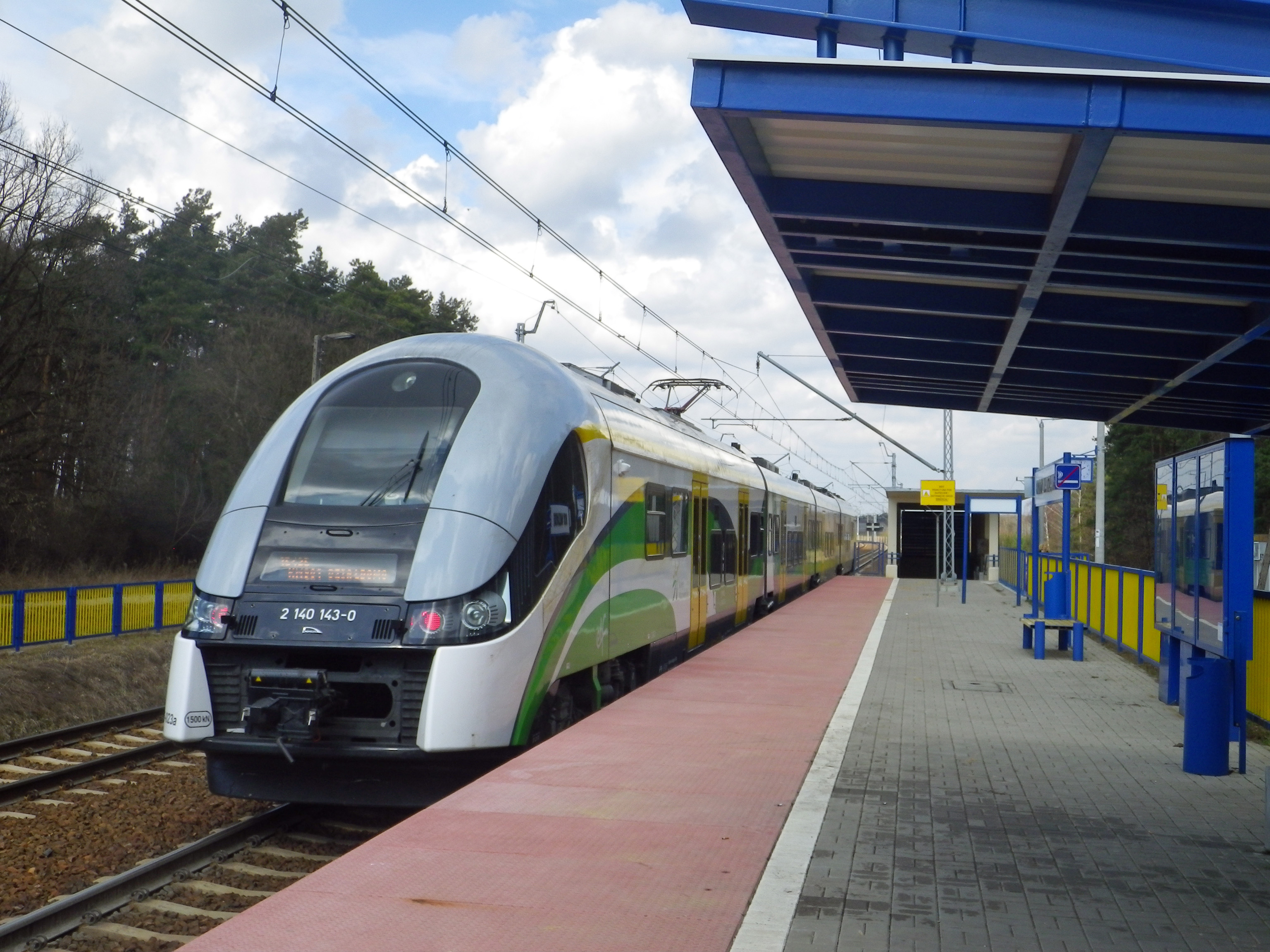 EN76 PESA Elf at Brody Warszawskie train station